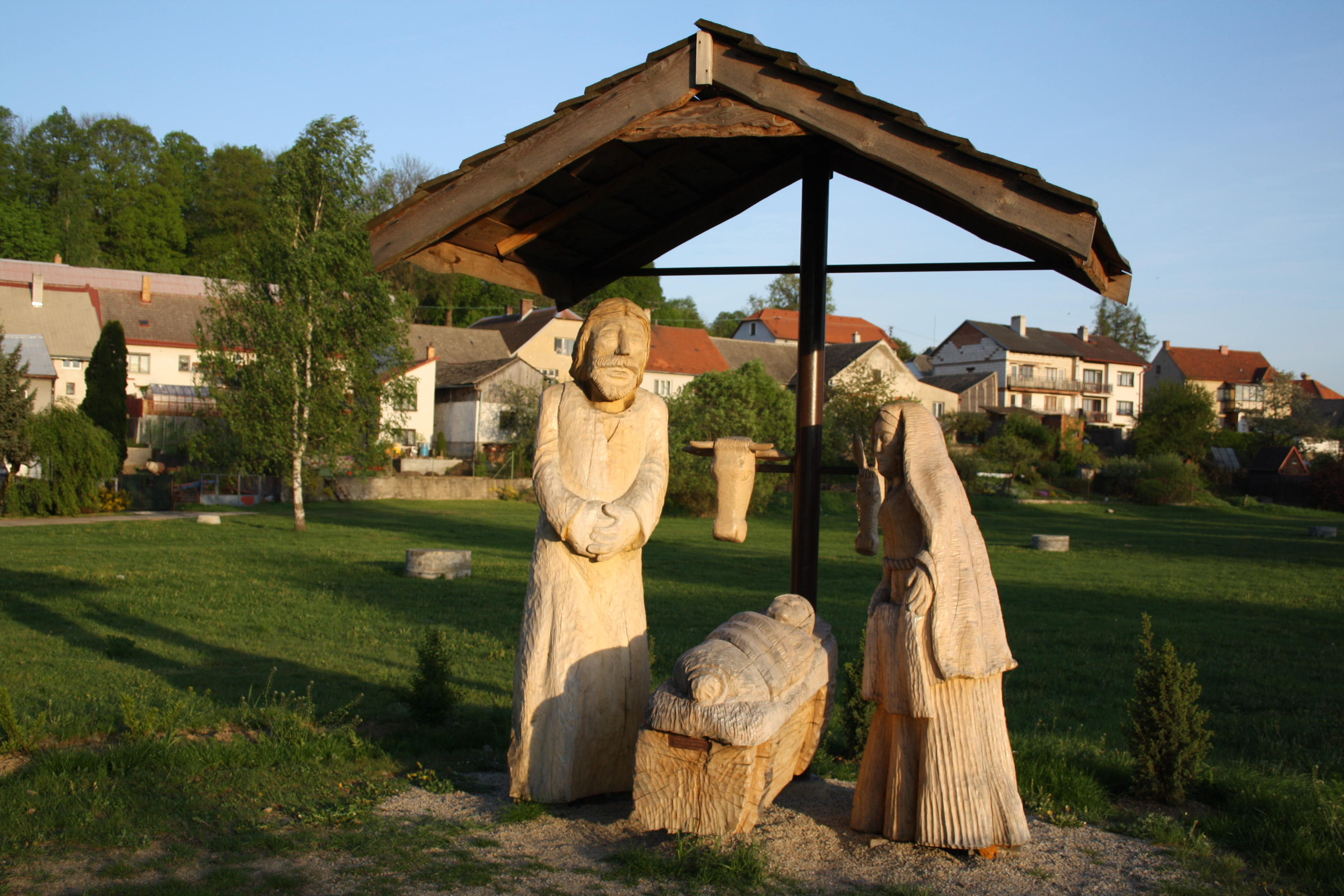 Real life size crib in Třešť, Czech Republic.